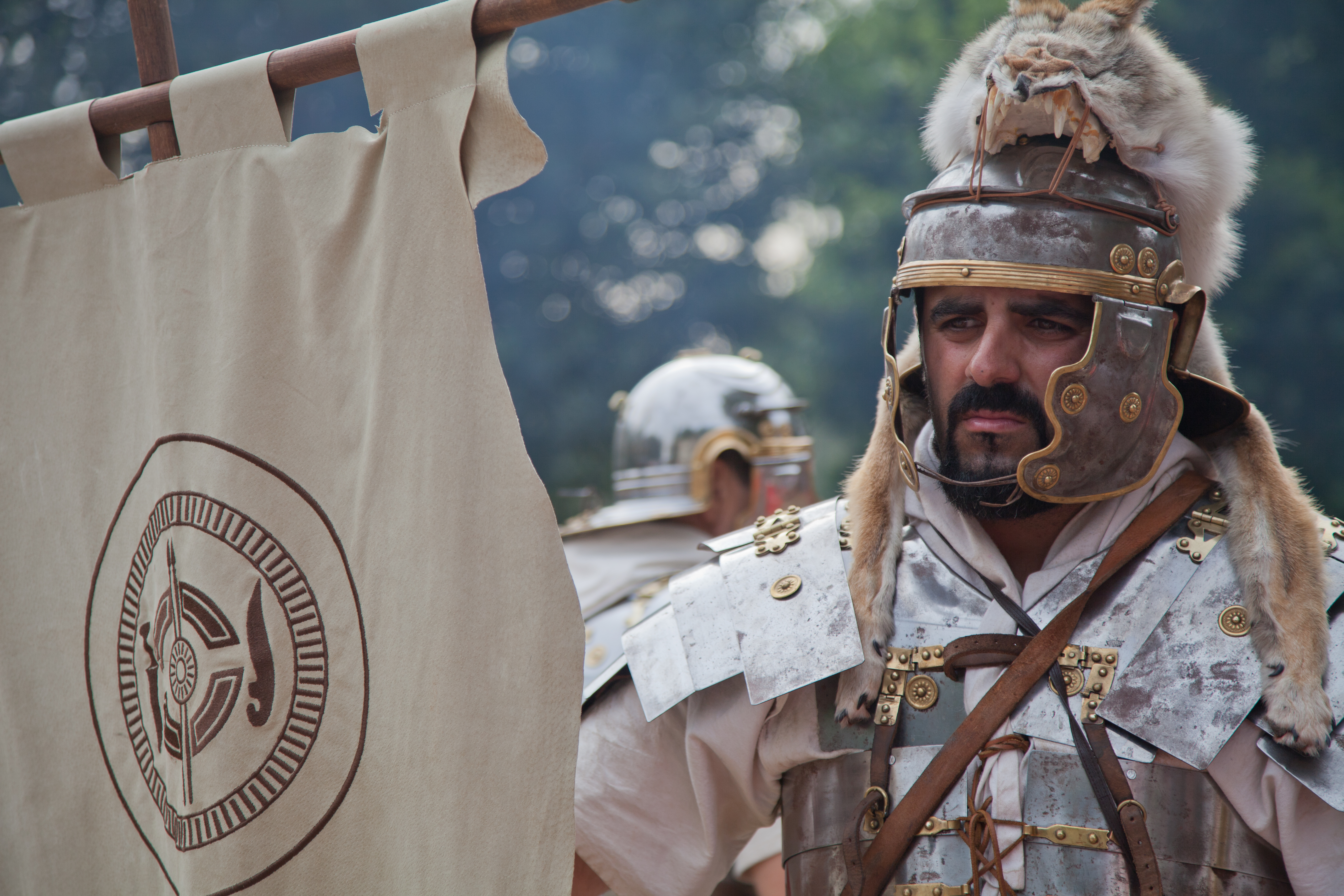 Legionnaire. Feast of oblivion. Xinzo de Limia, Ourense, Galicia.